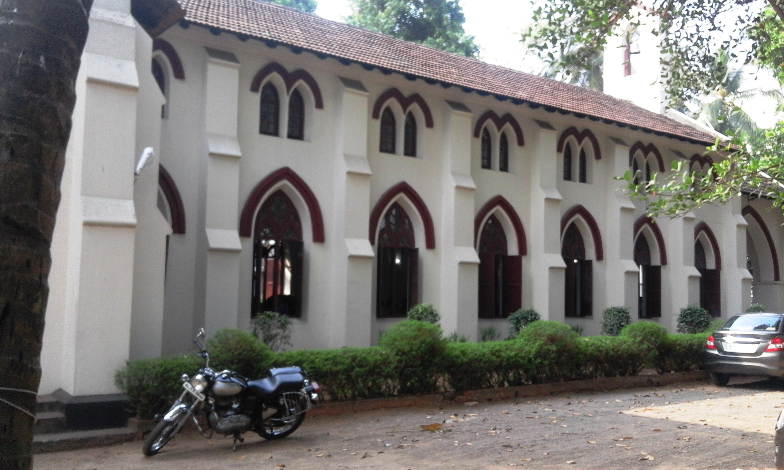 Kozhikode, Kerala province, India.